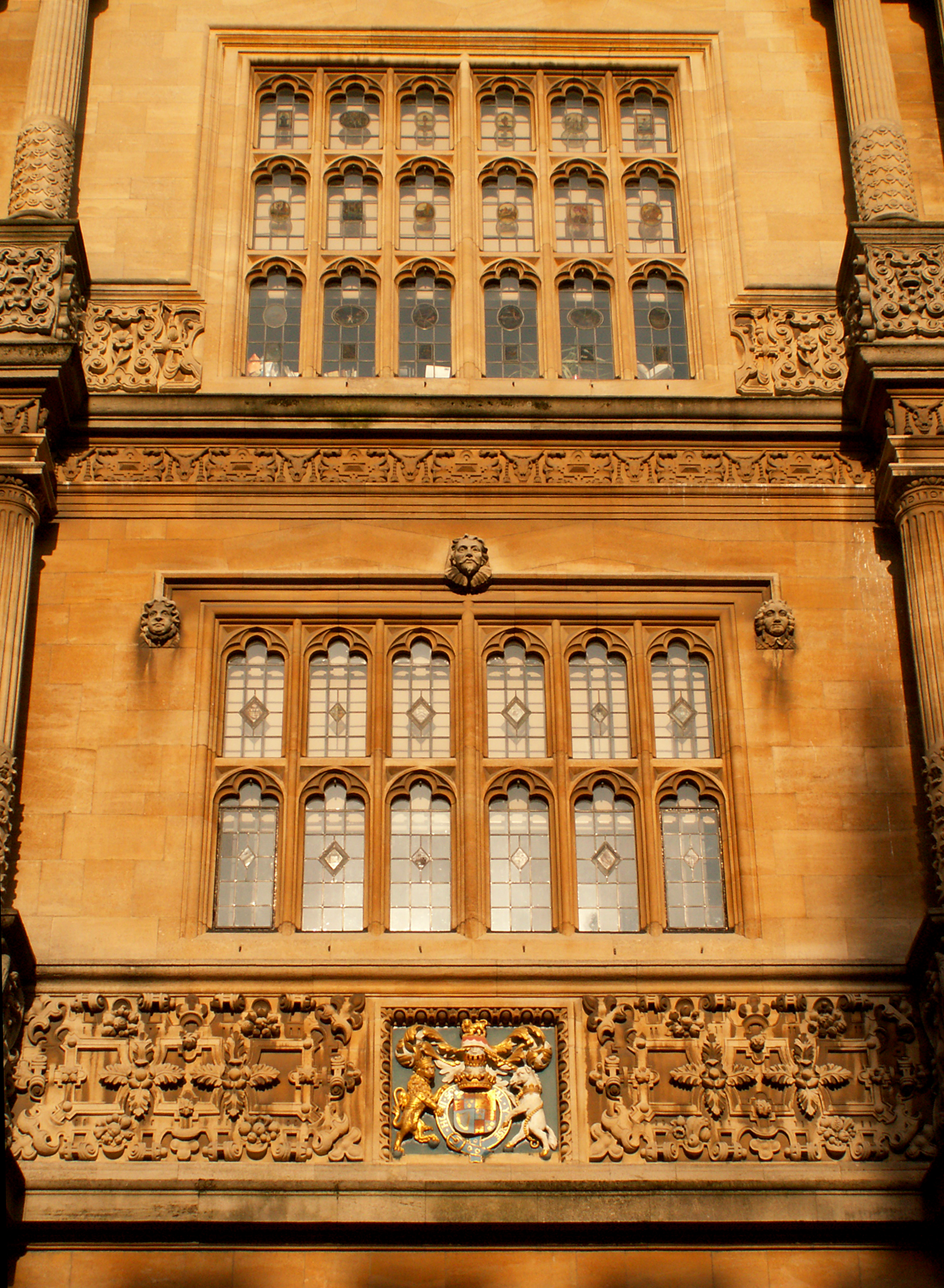 Bodleian Library, Oxford